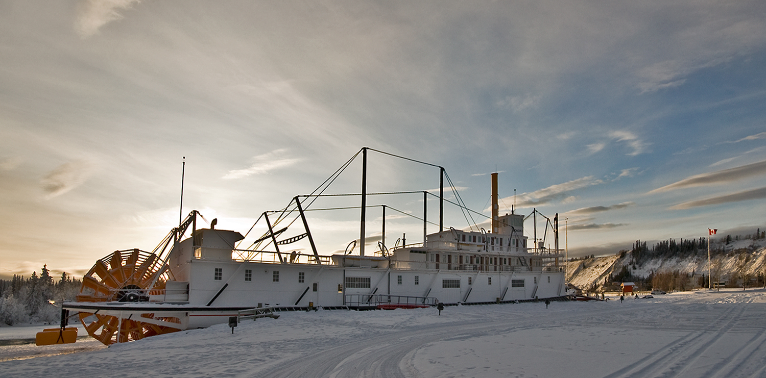 The steam powered sternwheeler S.S. Klondike runs the route from Whitehorse to Dawson City and back.